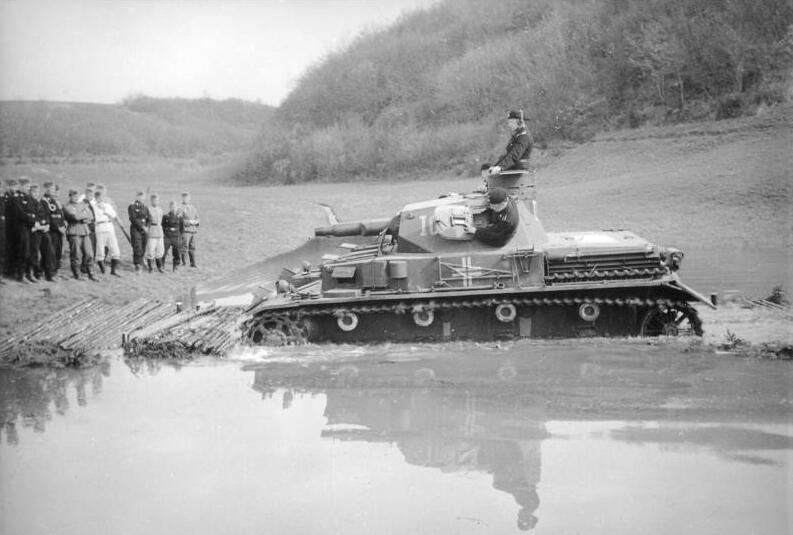 Information added by Wikimedia users.EN Translation: A Panzer IV-A performing a water crossing exercise / demonstration while being observed by Wehrmacht officers on the shore.